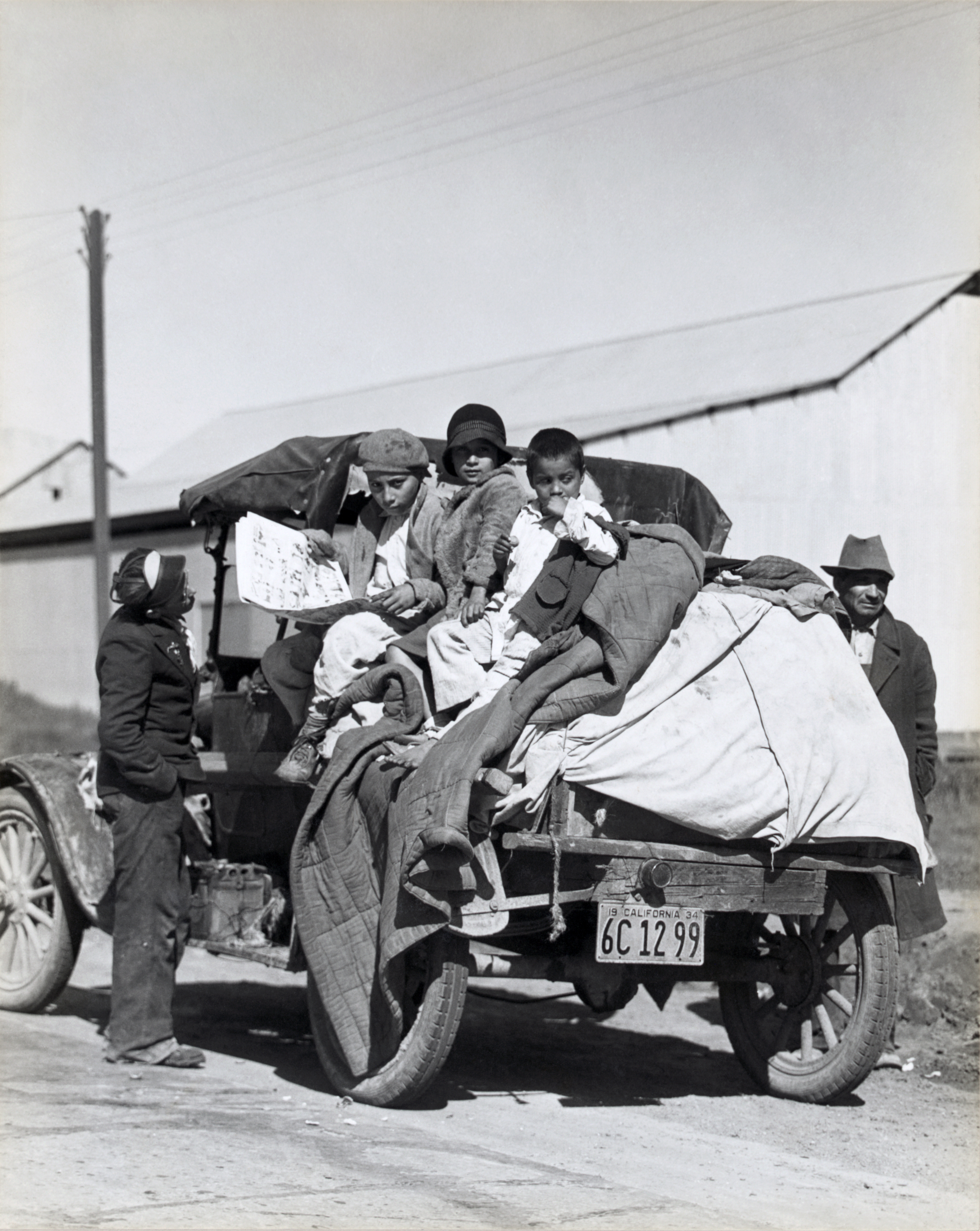 Establishment of rural rehabilitation camps for migrants in California. March 15, 1935 (from page 1a)